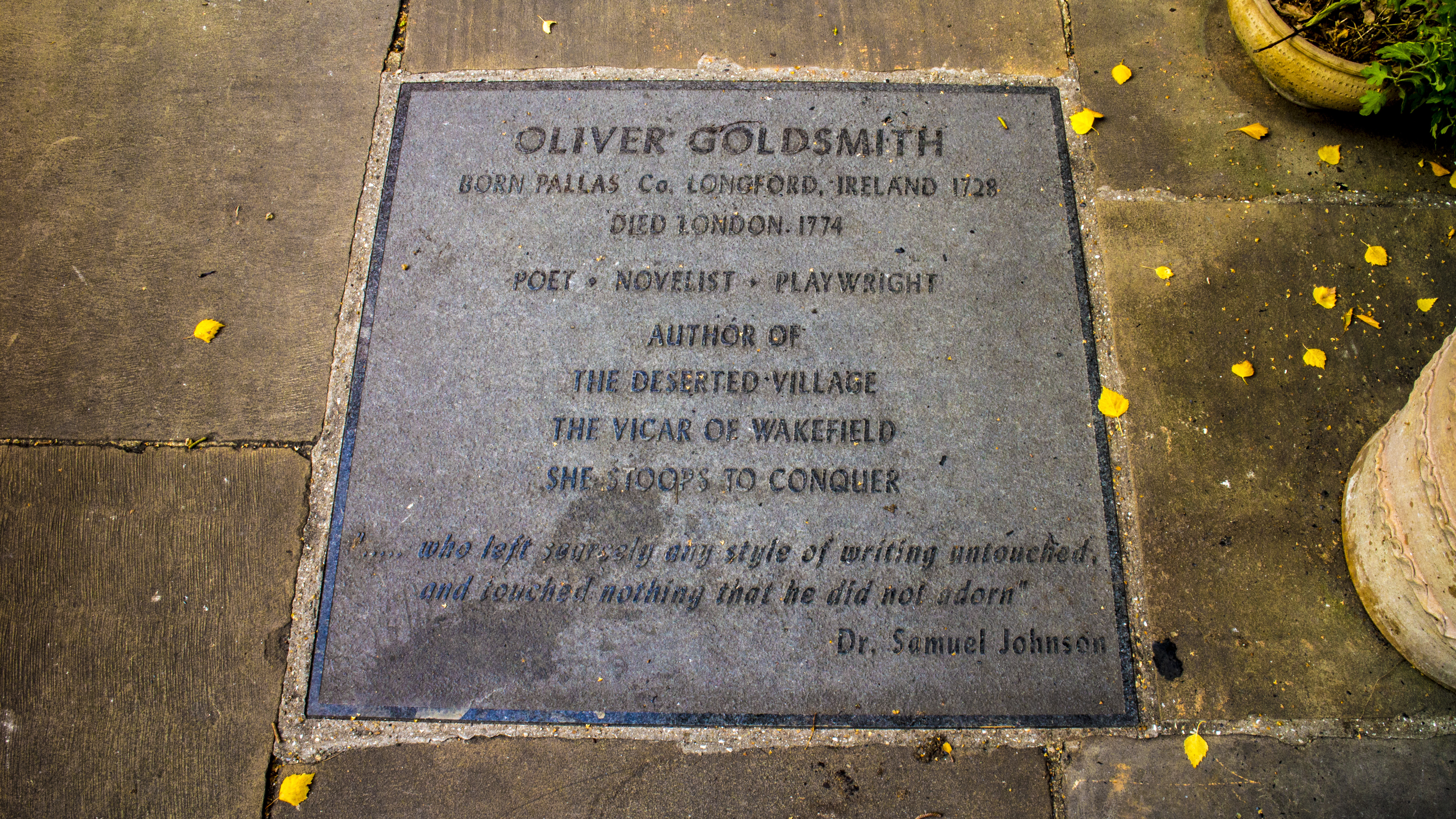 Located near Temple Church in London, this plaque indicates some details about the life of Oliver Goldsmith.